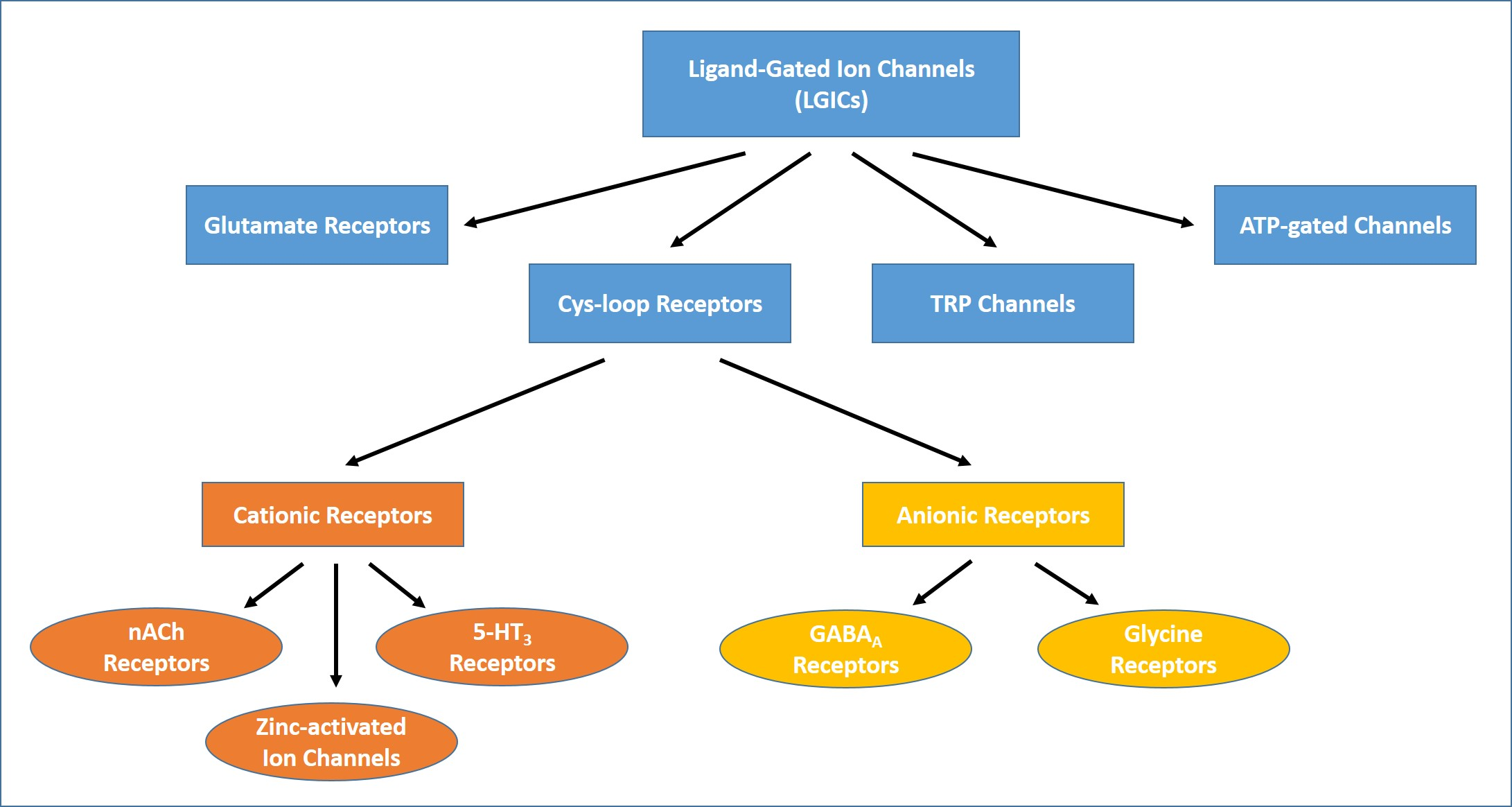 Classification of Ligand-Gated Ion Channels focusing on the Cys-loop superfamily